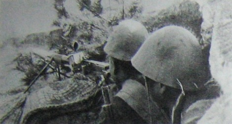 Communist troops in the Battle of Siping.国共内战中东北战场四平战役中共产党军队阵地。